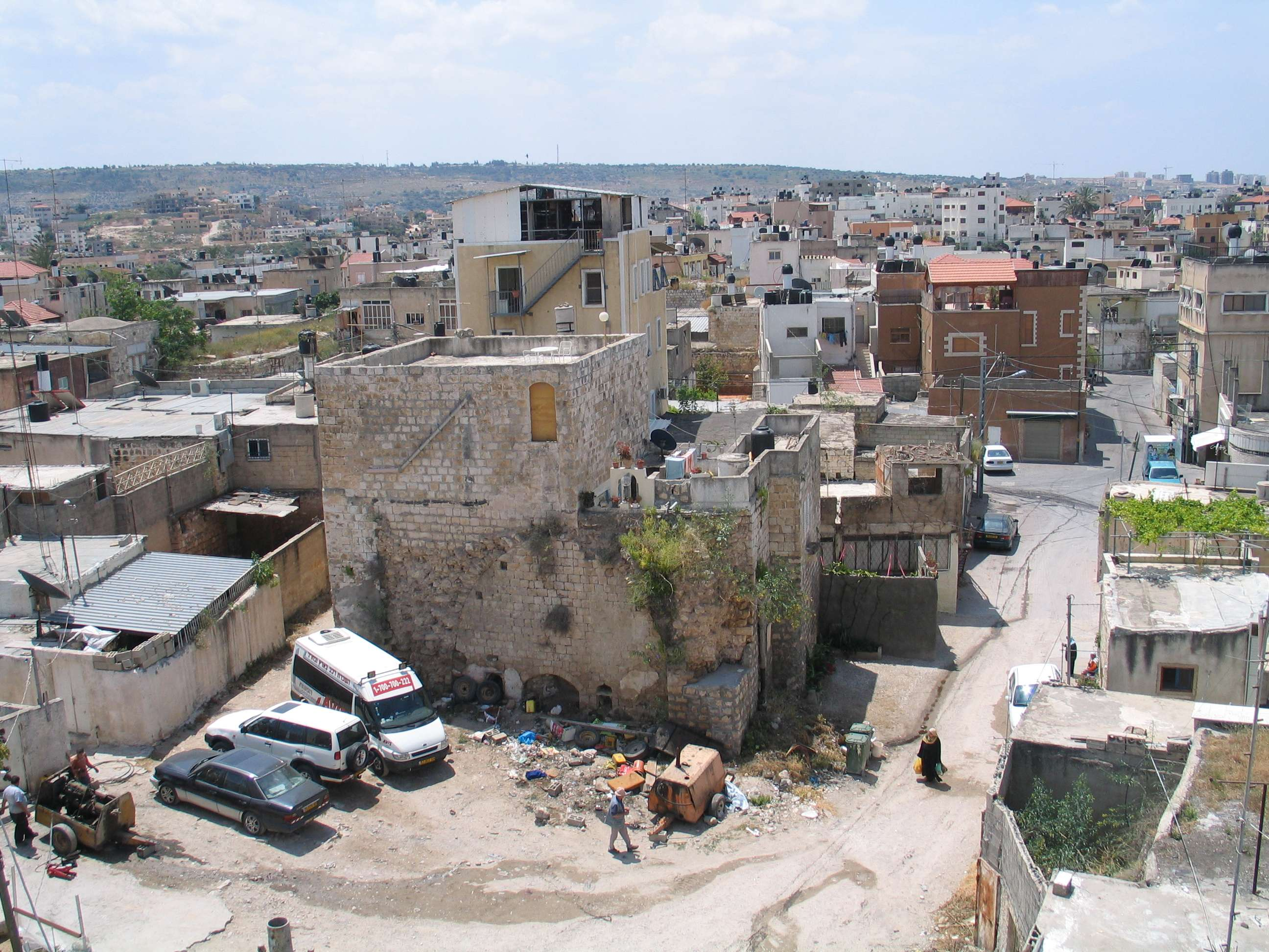 Tayibe, Israel.